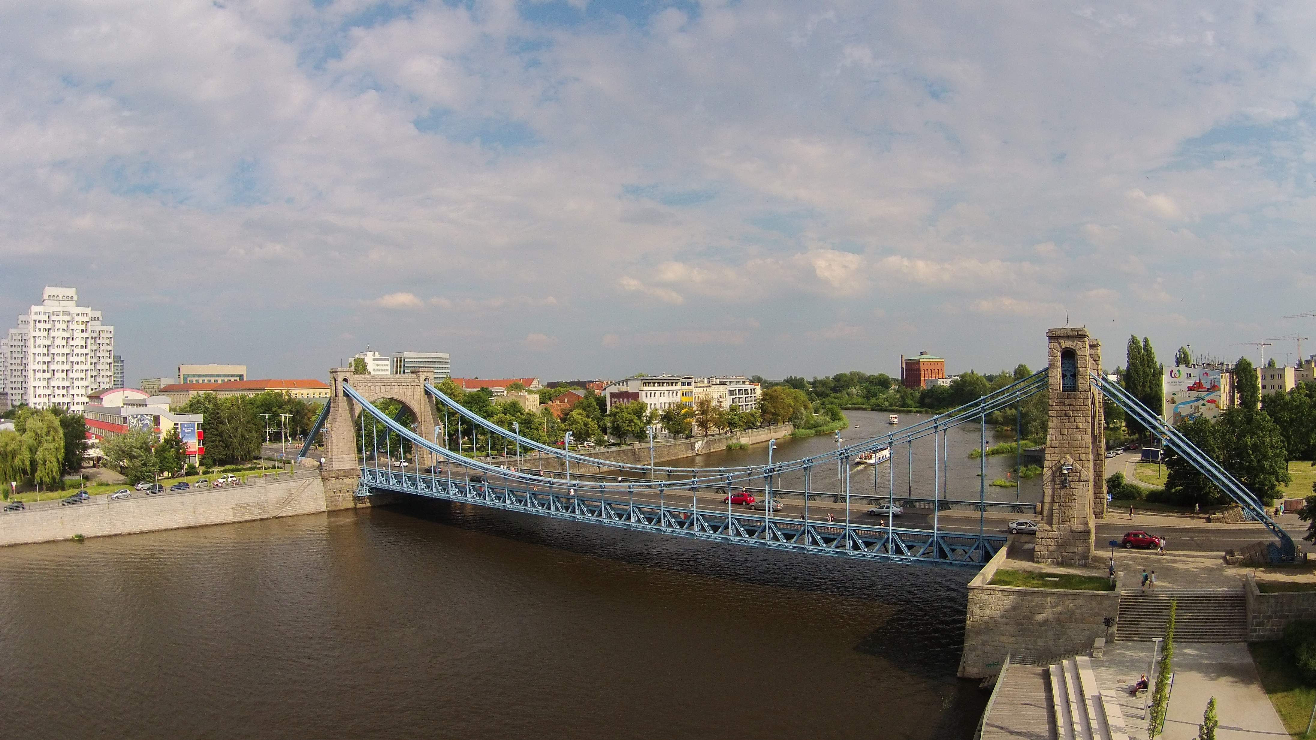 Grunwaldzki Bridge in Wrocław